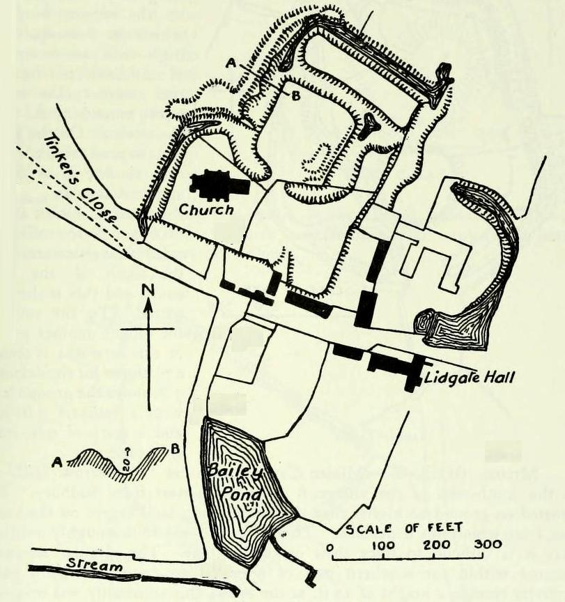 Plan of Lidgate Castle, 191